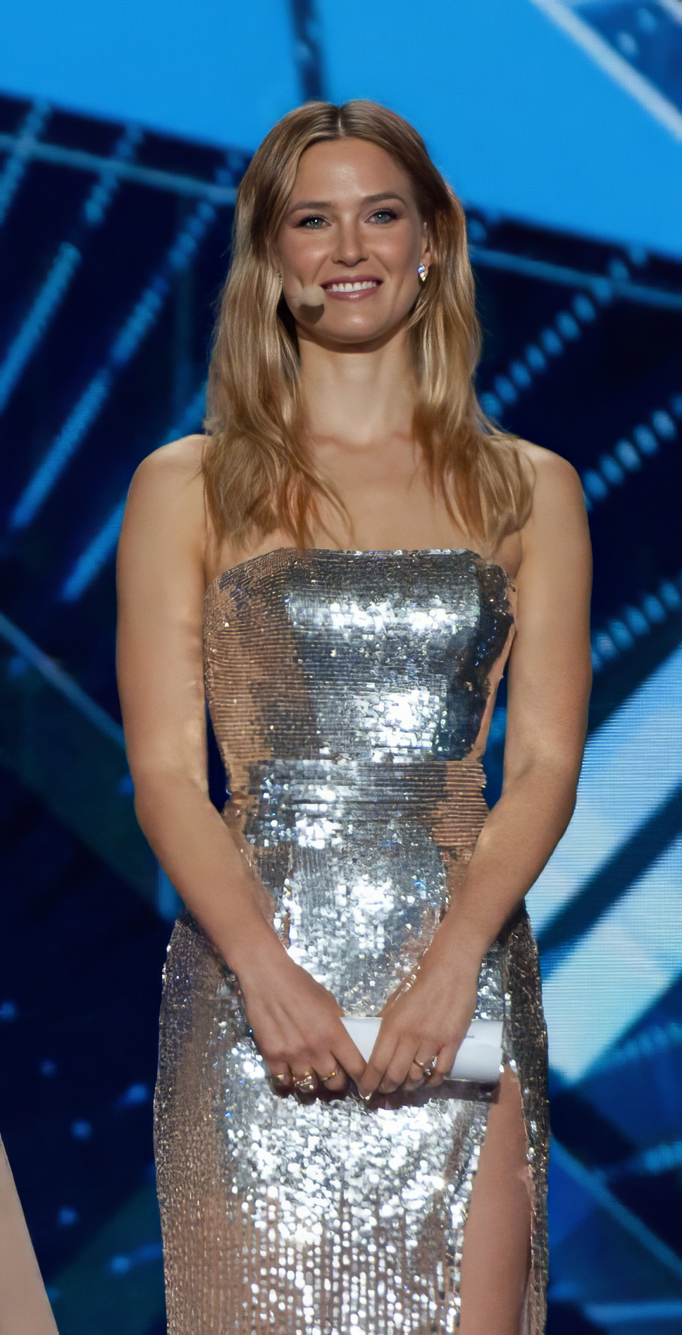 Presenters at the 2019 Eurovision Song Contest Grand Final Dress Rehearsal